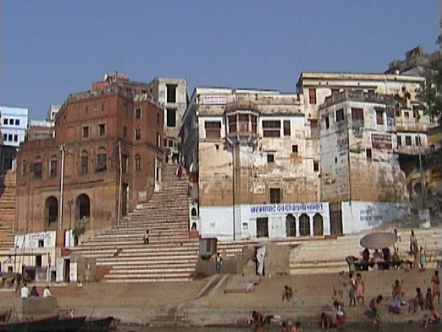 Hindu culture, have attributed supreme importance to the preservation of tradition Classical civilizations, and especially the Indian one, have attributed supreme importance to the preservation of tradition. Its central idea was that social institutions, scientific knowledge and technological applications need to use "heritage" as a "resource". Using contemporary language, we would say that ancient Indians considered, as social resources, both economic assets (like natural resources and their exploitation structure) and factors promoting social integration (like institutions for preserving knowledge and maintaining civil order). Ethics considered that what had been inherited should not be consumed, but should be handed over, possibly enriched, to successive generations. This was a moral imperative for all, except in the final life stage of sannyasa